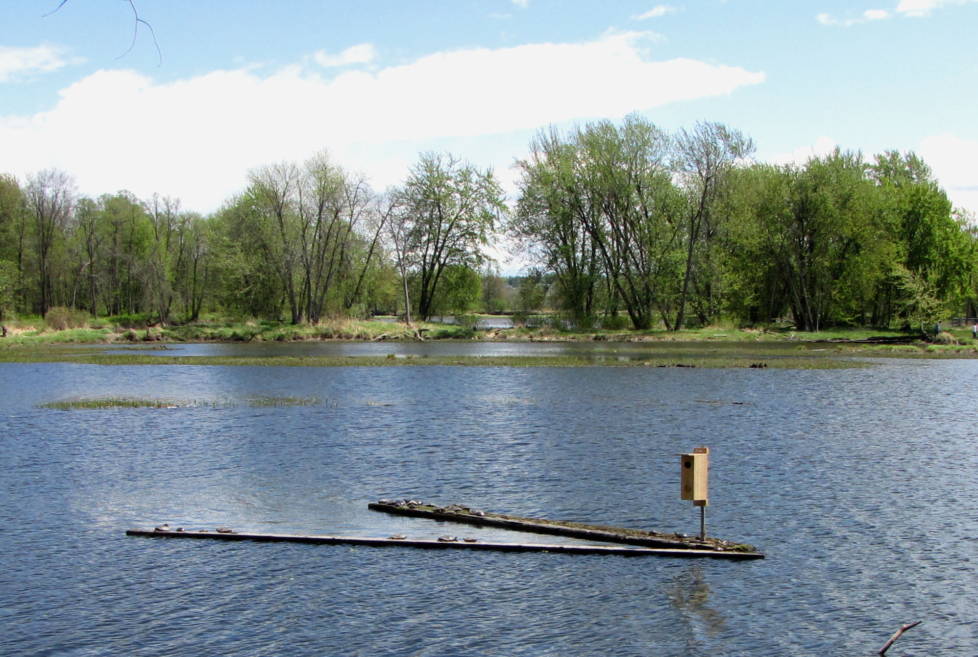 Turtle Pond, Petrie Island Park, Ottawa, Ontario, Canada